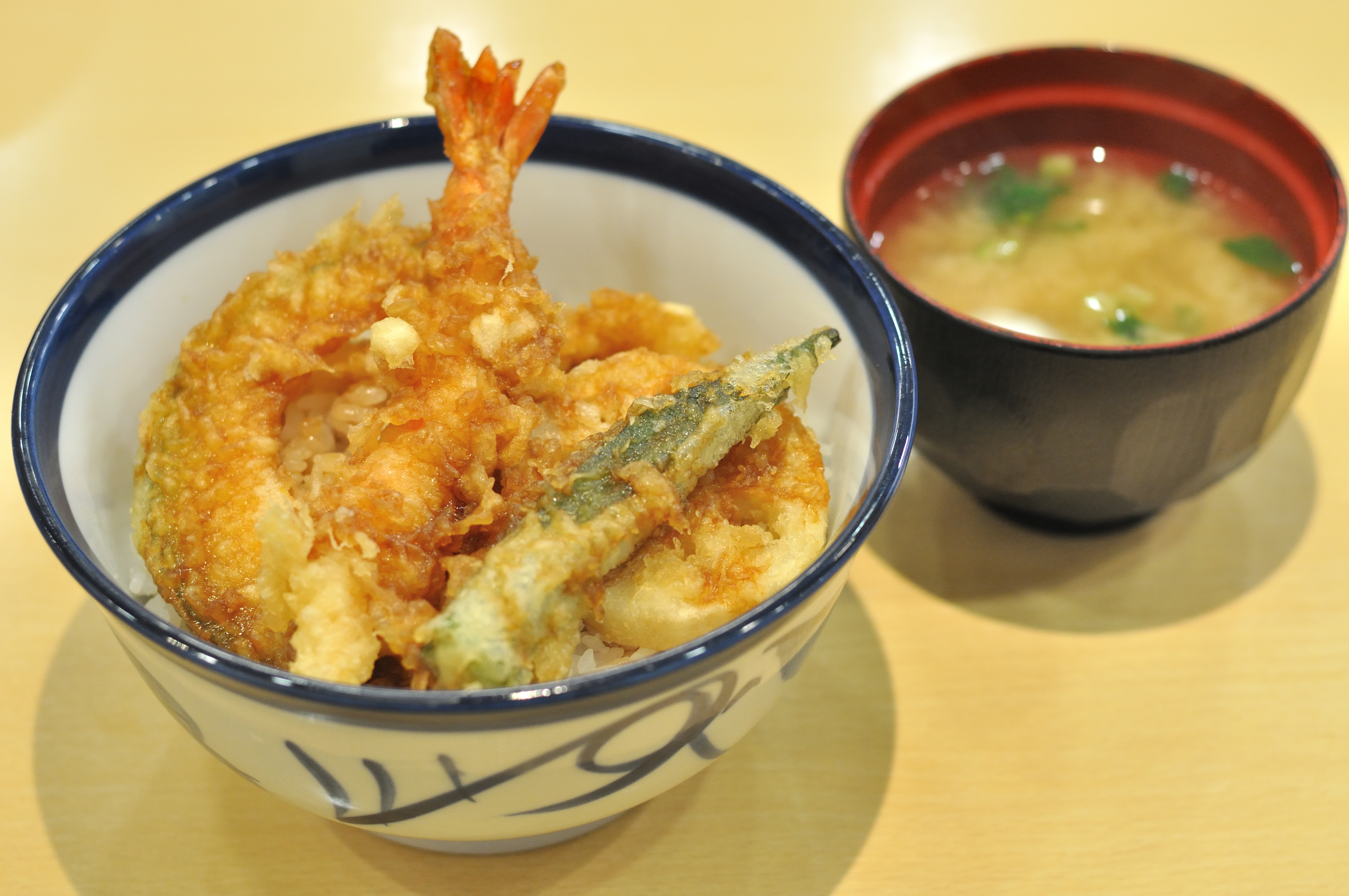 Typical example of Tendon.